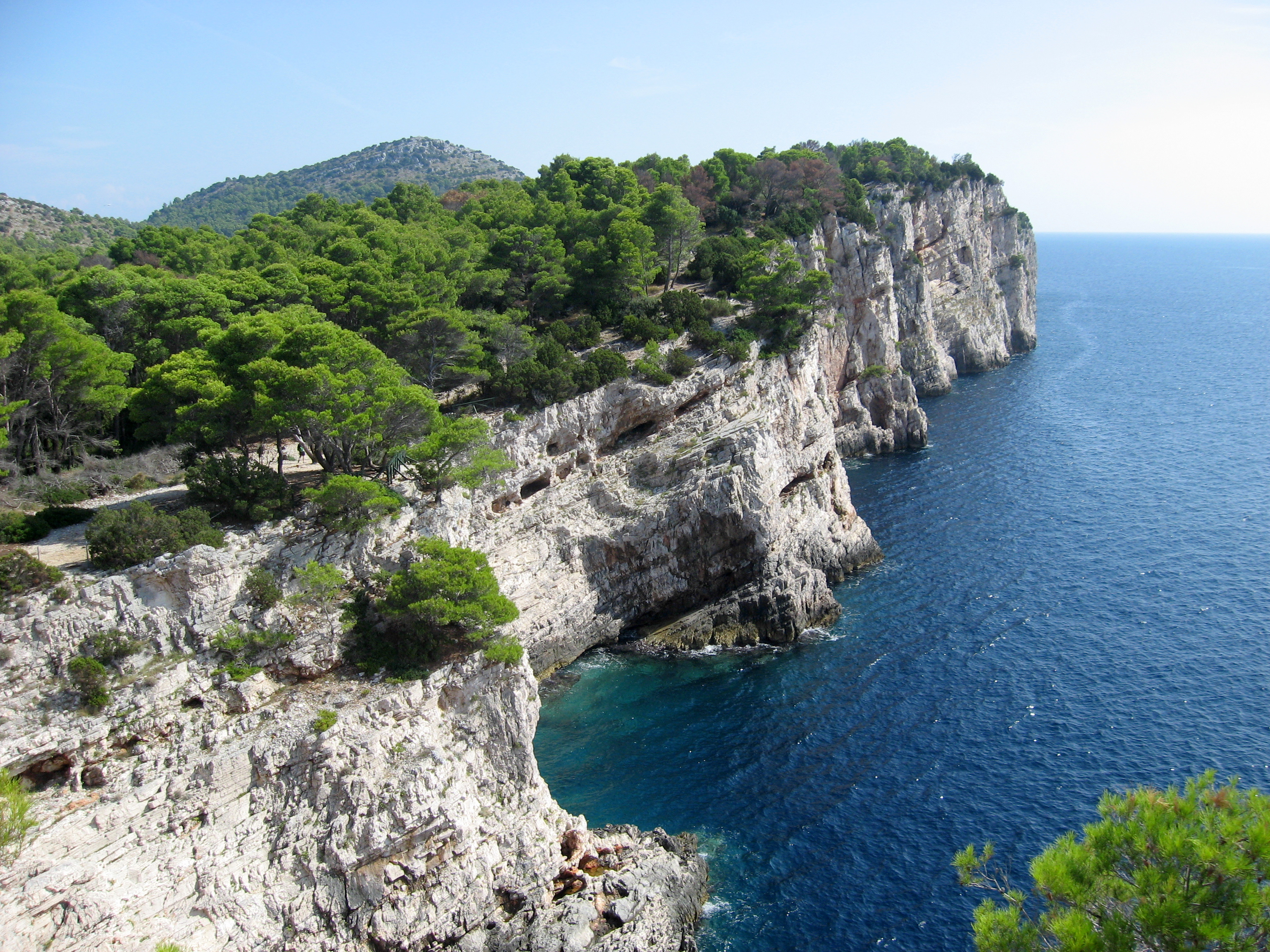 Cliffs in Telascica Nature Park. Dugi Otok. Croatia